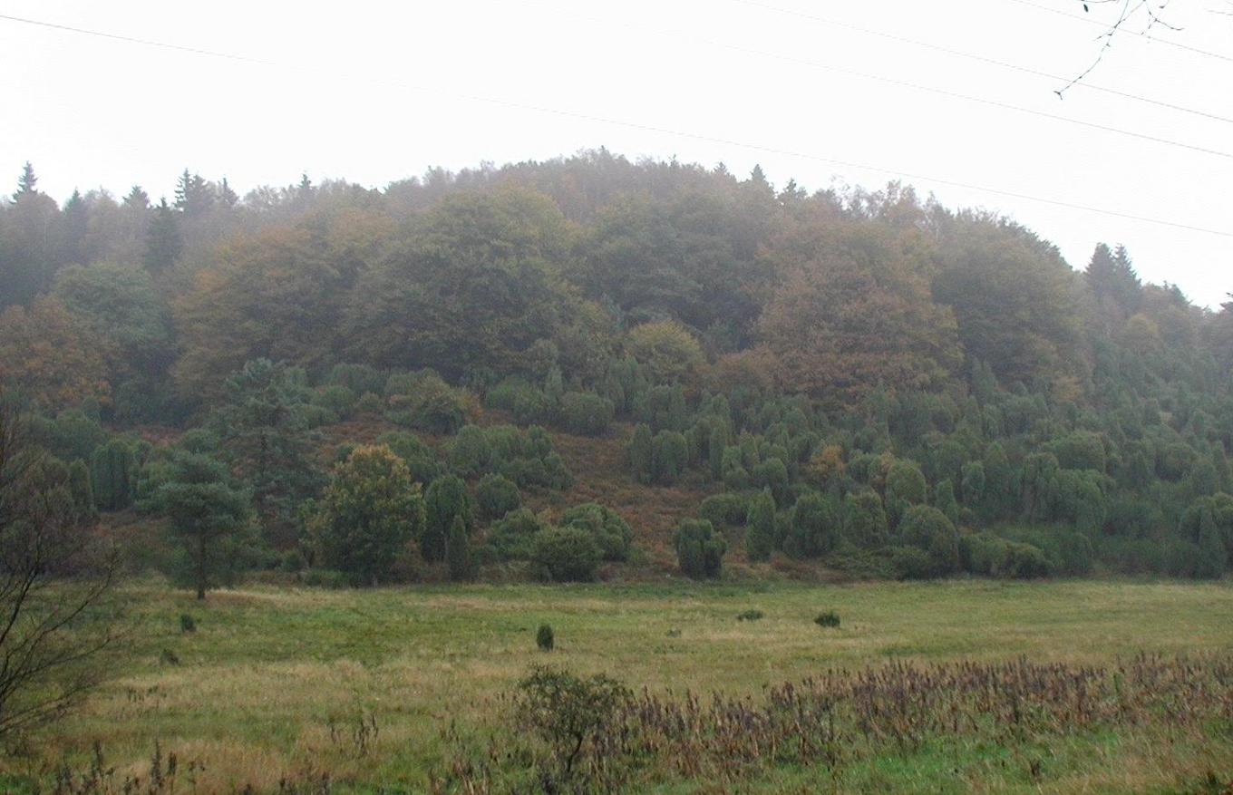 Juniper scrub on a hillside facing south near Salten Langsø in Jutland